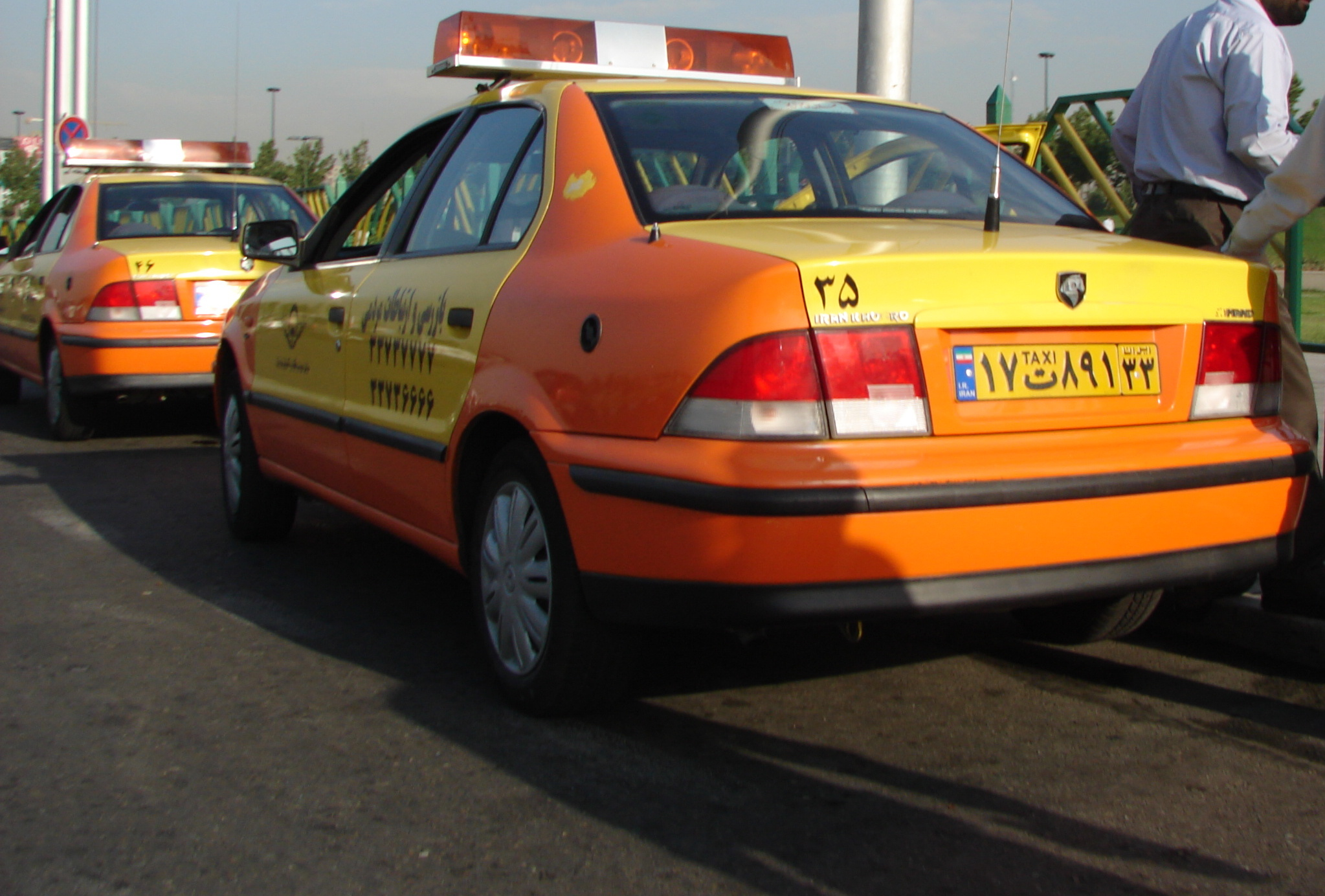 Snapshot from Tehran